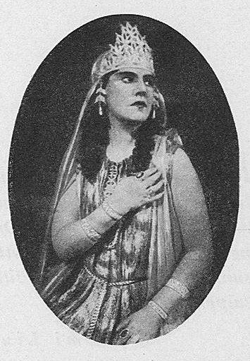 Finnish opera vocalist Lahja Linko, early 1930s.